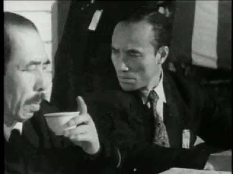 Osamu Takizawa(right) in 1950 Japanese movie Pen Itsuwarazu, Bōryoku no Machi (Streets of Violence) .